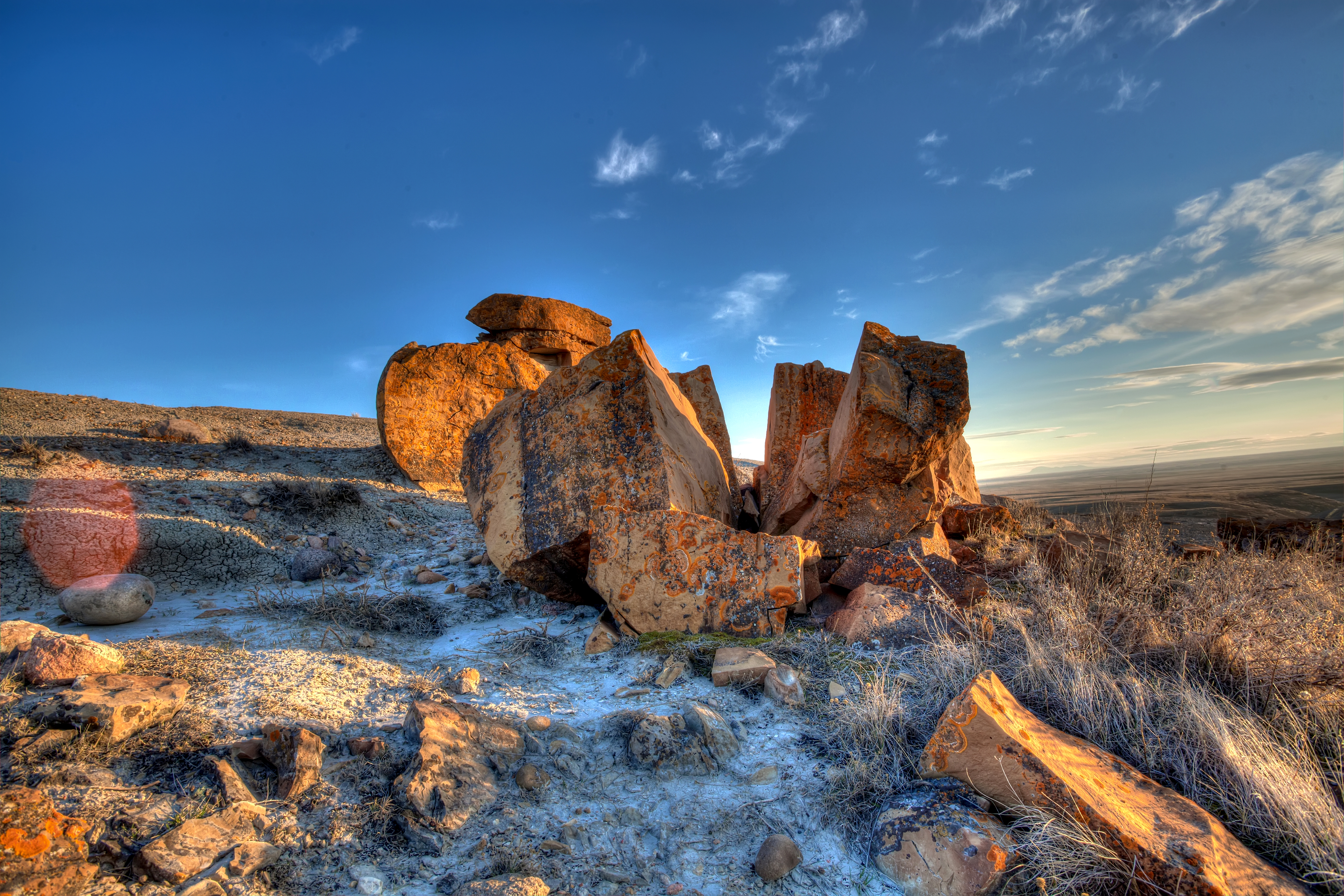 Red Rock coulee in southeastern Alberta is other-wordly looking at sunset This photo was taken in a protected area in Canada, Wikidata item Red Rock Coulee (Q7304907)